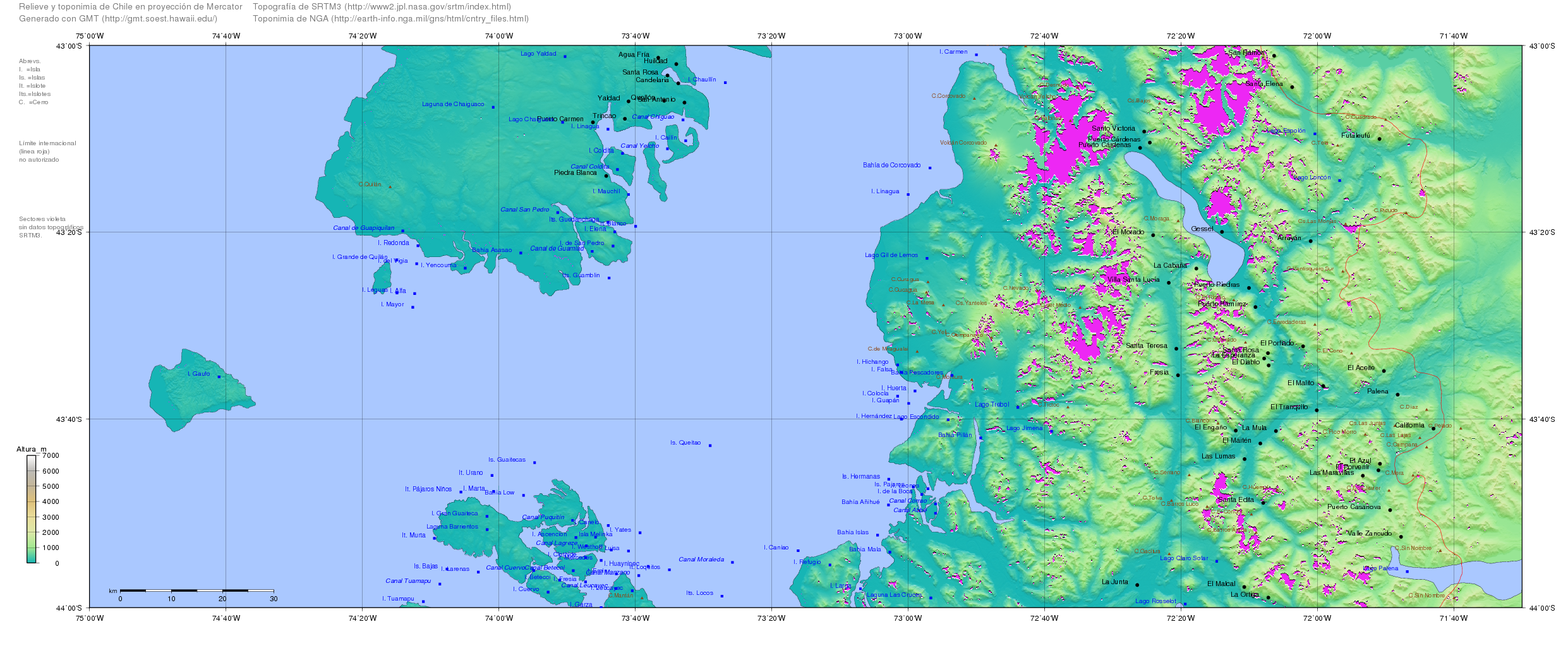 Map of Chile generated with GMT ( topography from SRTM ftp://e0srp01u.ecs.nasa.gov/srtm/version2/SRTM3/ and toponymy from